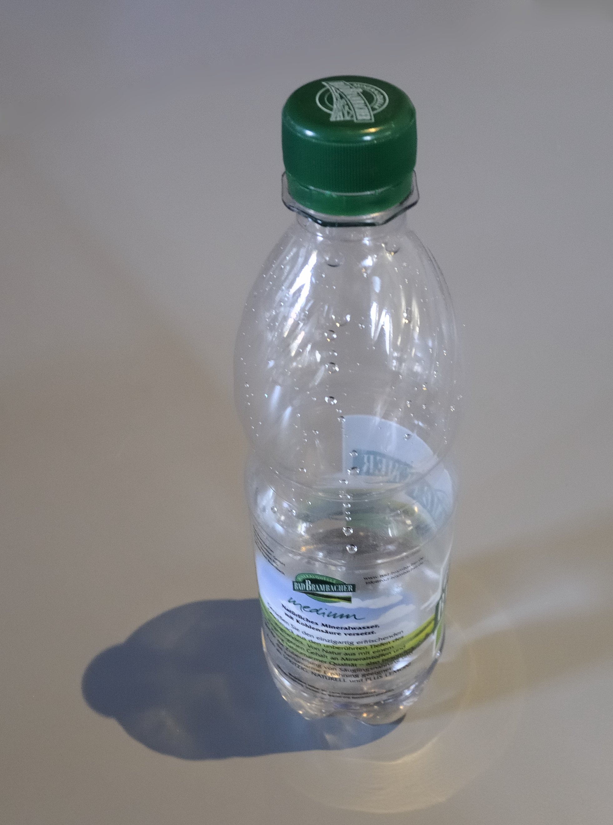 Picture taken in Meissen while dewiki’s mentorship program meetup. PET bottle.